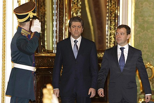 Dmitry Medvedev and Binyamin Netanyahu meet in Moscow